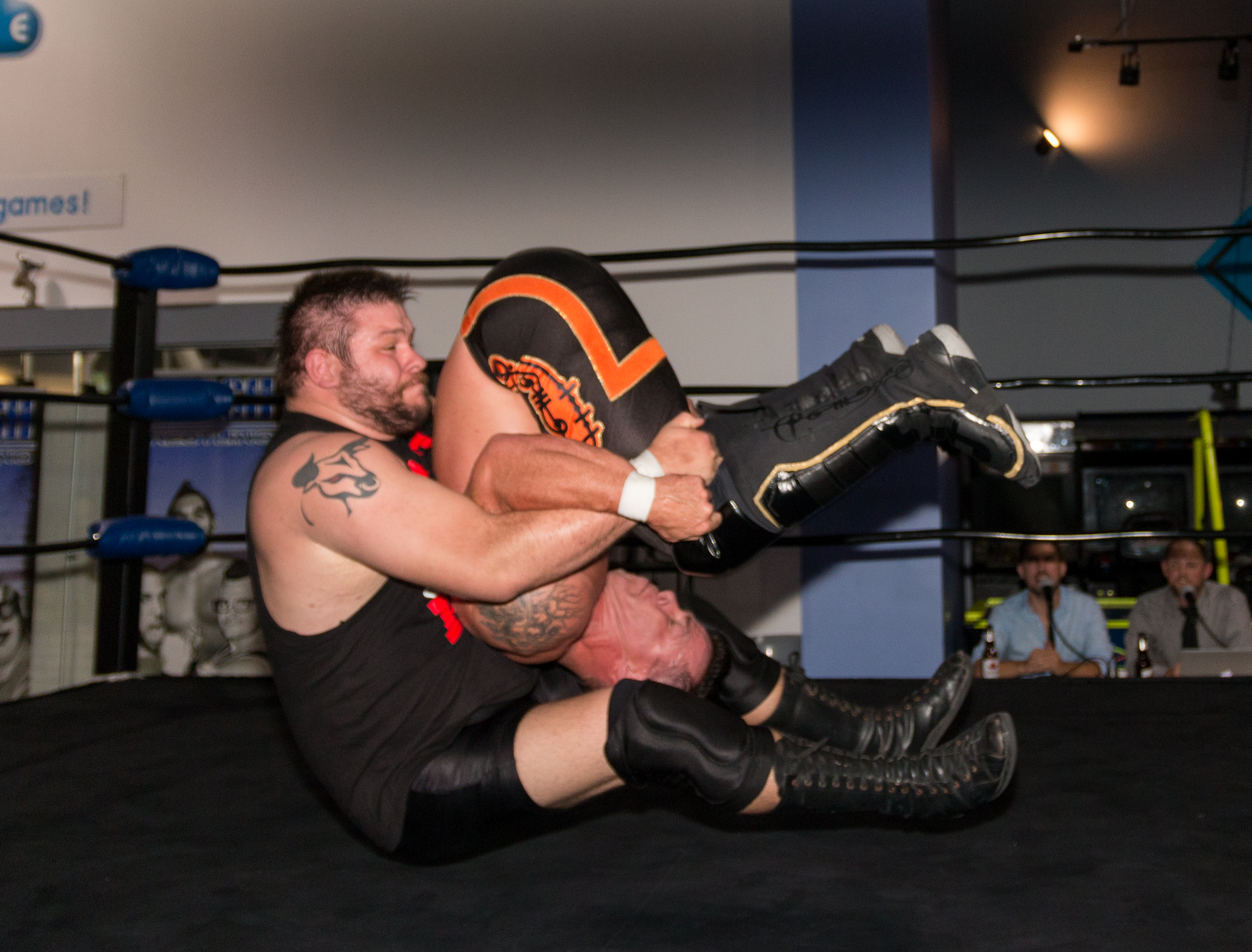 Kevin Steen executing his package piledriver finisher on "Hacker" Scotty O'Shea at a Smash Wrestling show in Etobicoke, ON